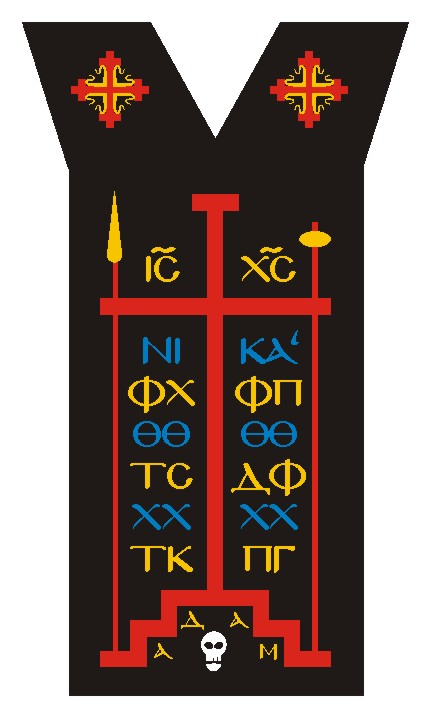 The Great Schema or Megaloschema - this is my own drawing of what one looks like. My name is Theodoulos Grigorites/Thomas Raley. I give my permission for its free usage